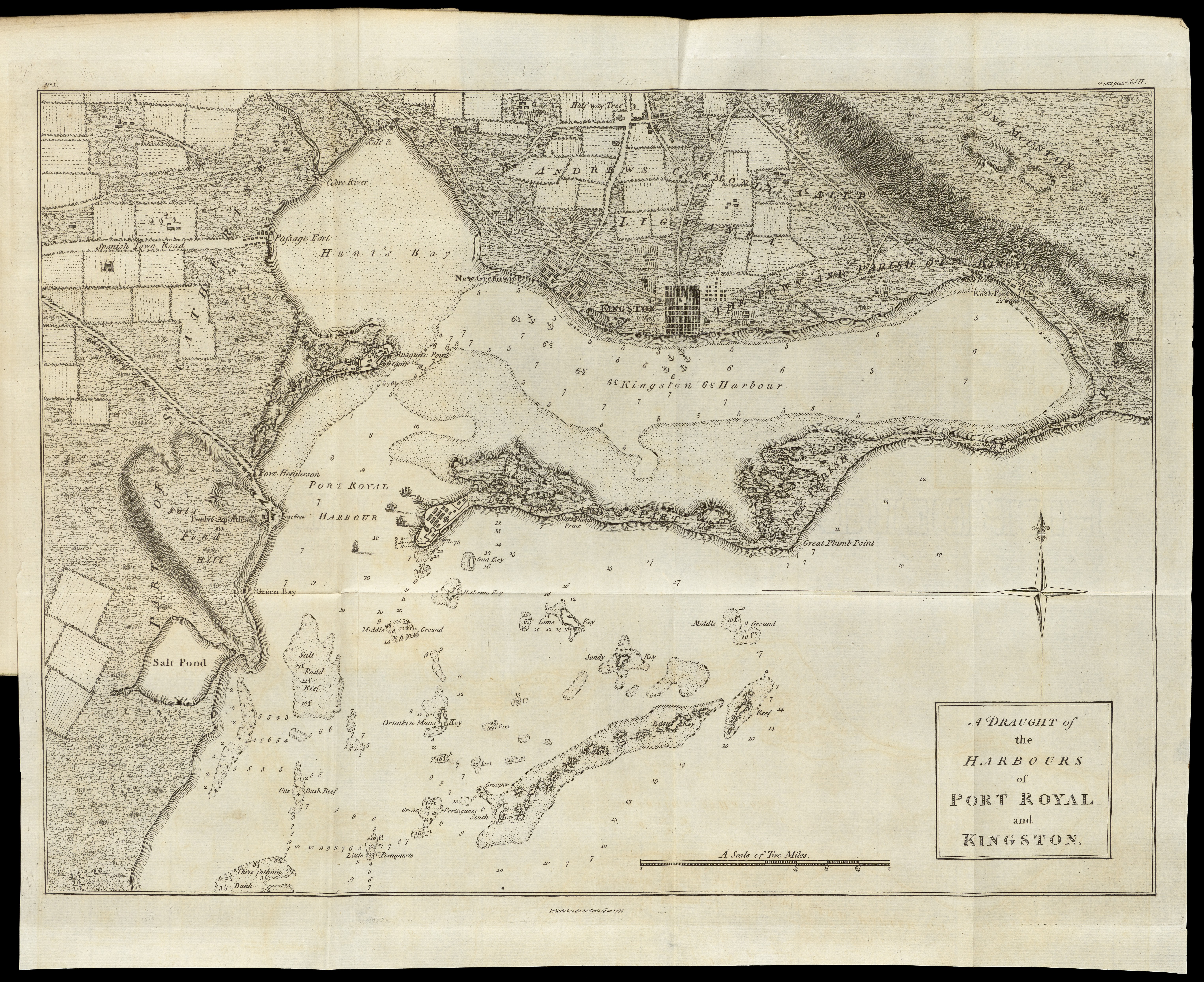 Map showing the harbours of Port Royal and Kingston, Jamaica Rare Books Keywords: Natural History